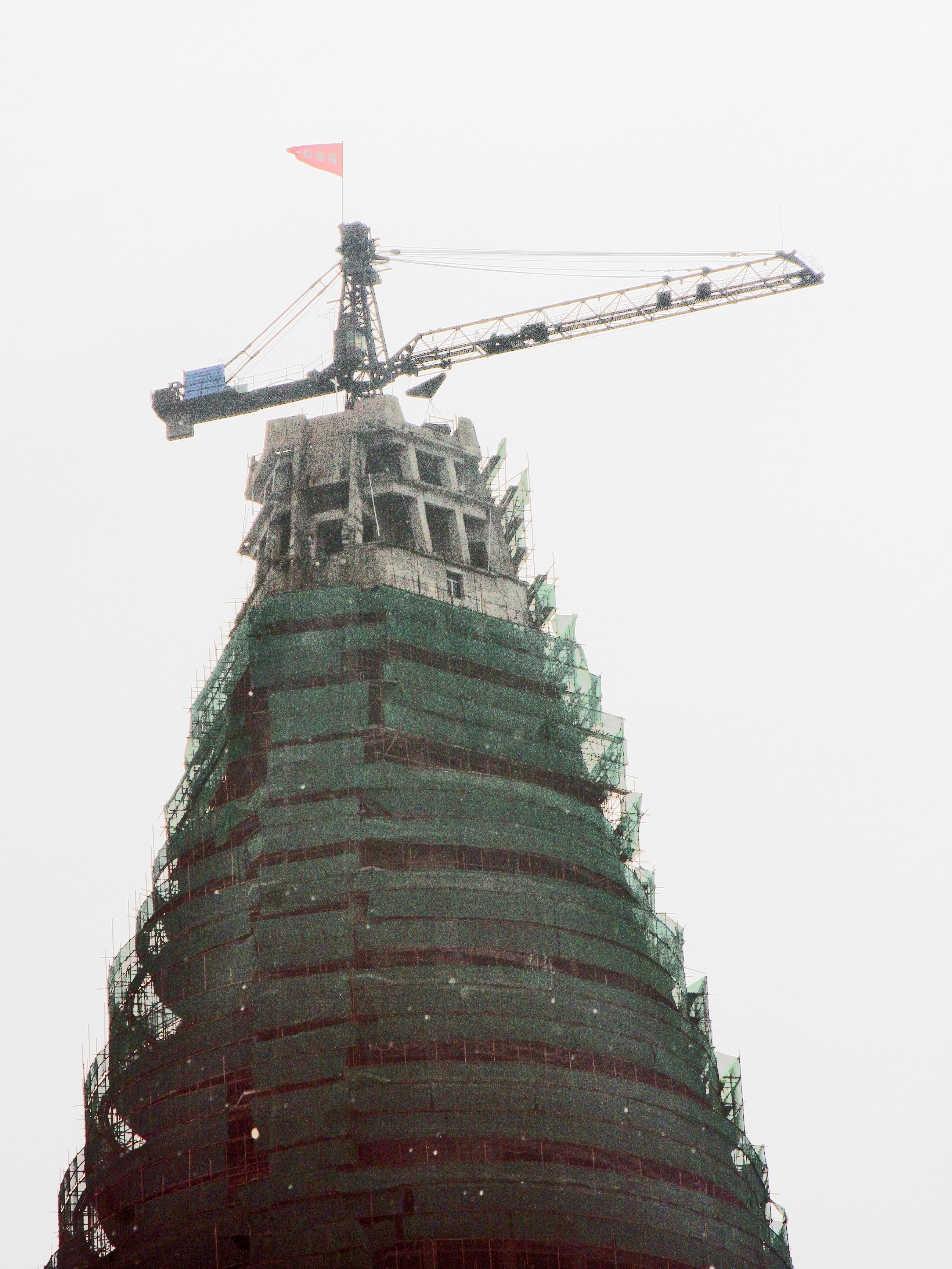 Top of the Ryugyong Hotel in Pyongyang with crane. The Construction has resumed since early 2008 with funding from the Egyptian firm, Orascom Group.